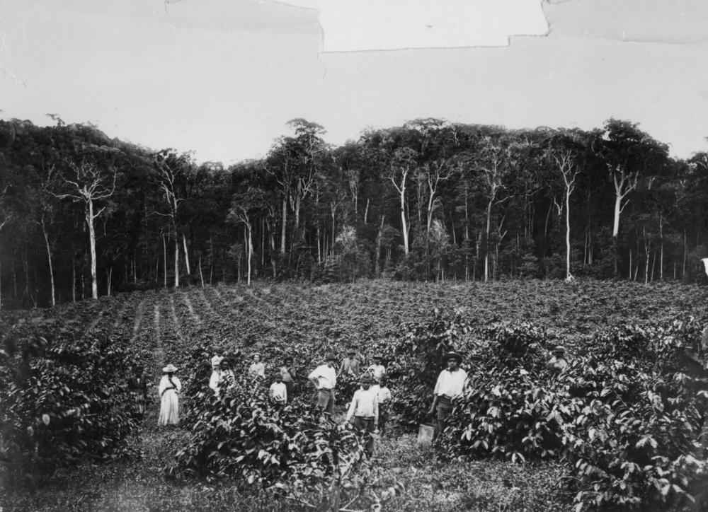 Workers on a coffee plantation at Kuranda, Queensland, ca. 1900. Workers, including some South Sea Islanders, on a coffee plantation at Kuranda, Queensland, ca. 1900. The group poses standing among the rows of coffee bean trees. Trees border the field in the background. Agriculture and timber harvesting have greatly pushed down the forest in these areas also contributes to soil degradation. Ref 2003-07-15.